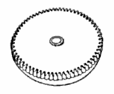 Drawing of watch going barrel.